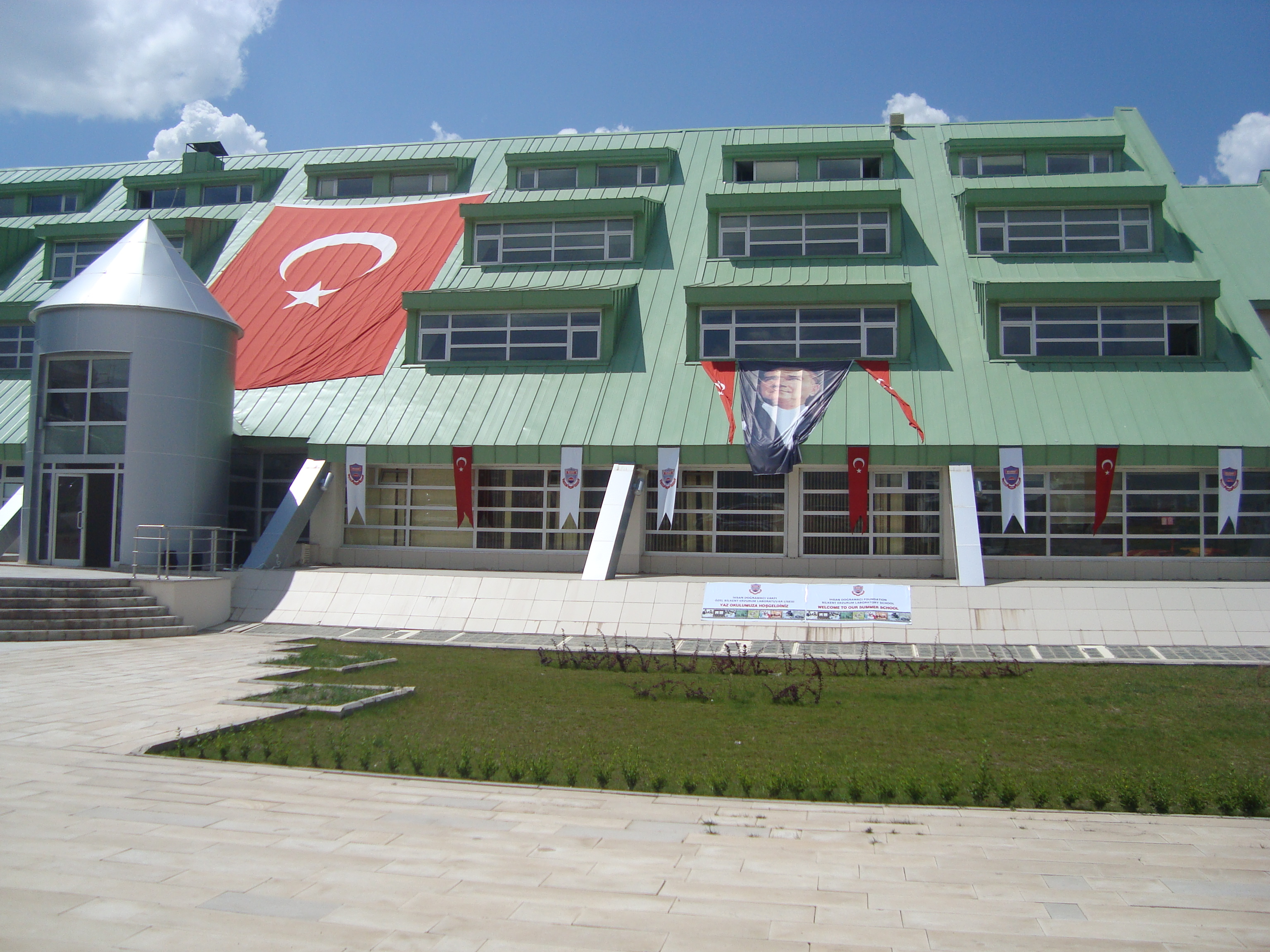 Bilkent Erzurum Front View Garden